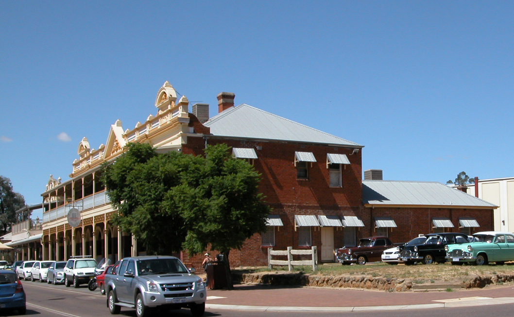 Historic Pub Stirling Terrace Toodyay.